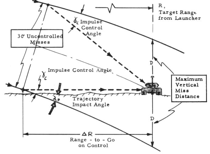 POLCAT selection of control angle.